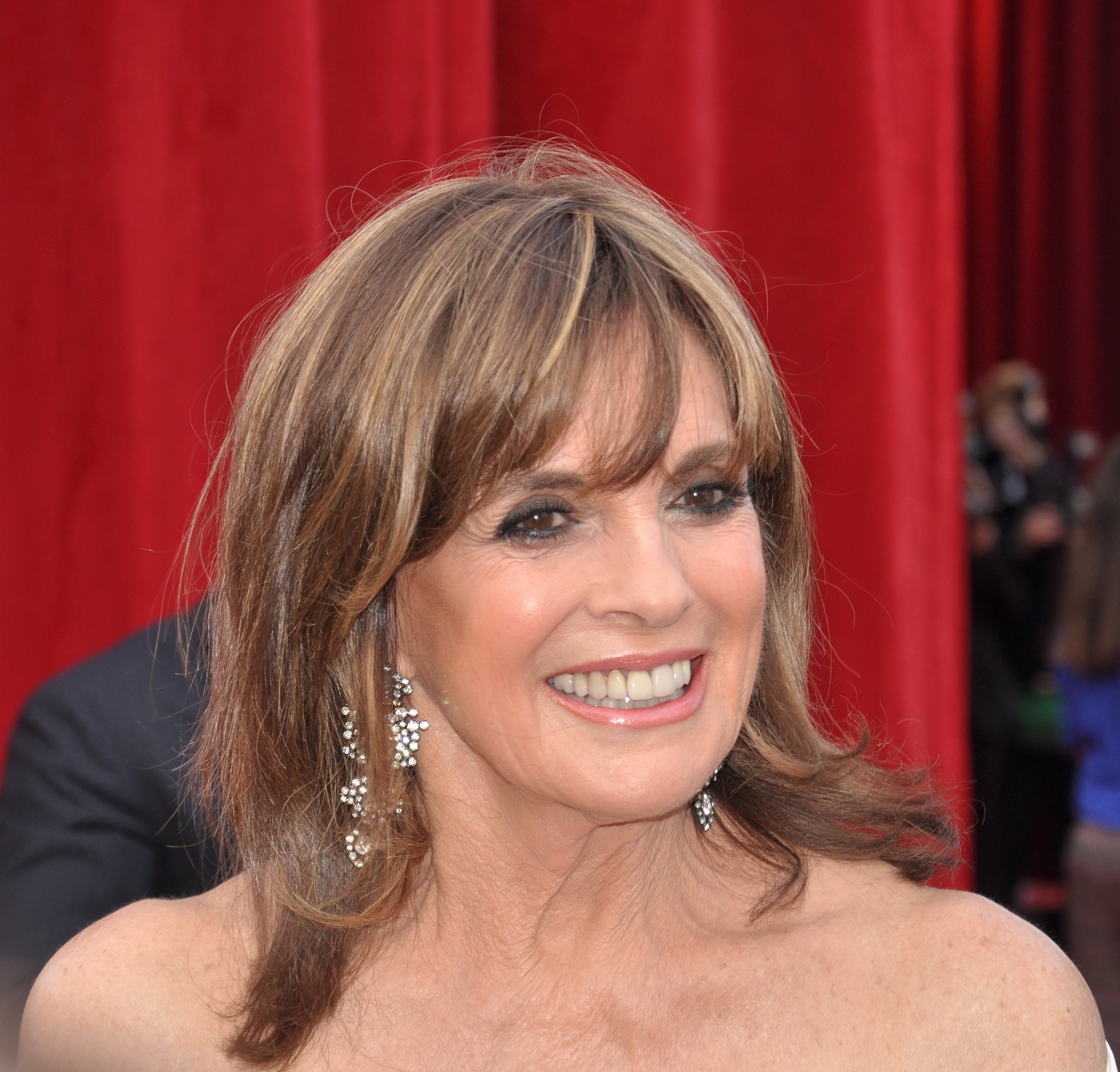 Linda Gray at the 2013 Monte-Carlo Television Festival.